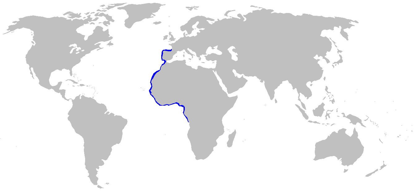 Distribution map for Sphyrna couardi